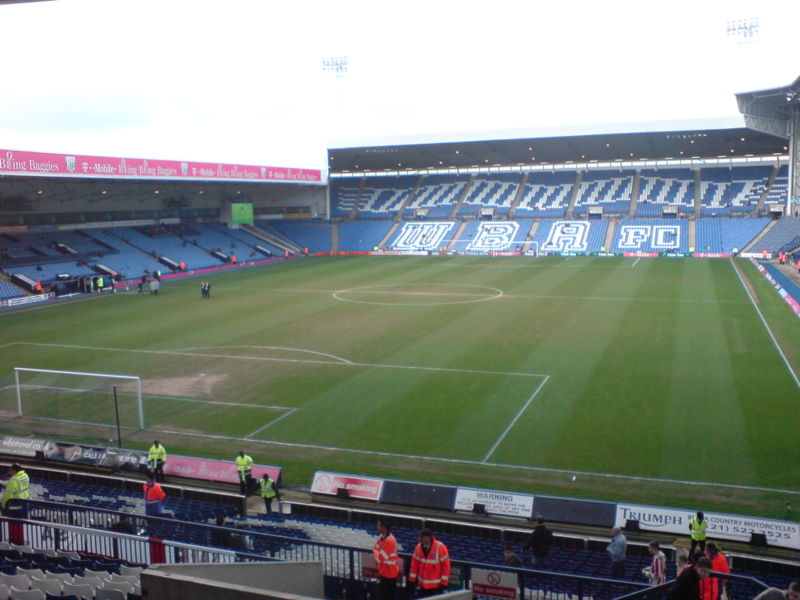 Photo was taken by JEMT of The Hawthorns prior to WBA's 2-1 home defeat to Sunderland